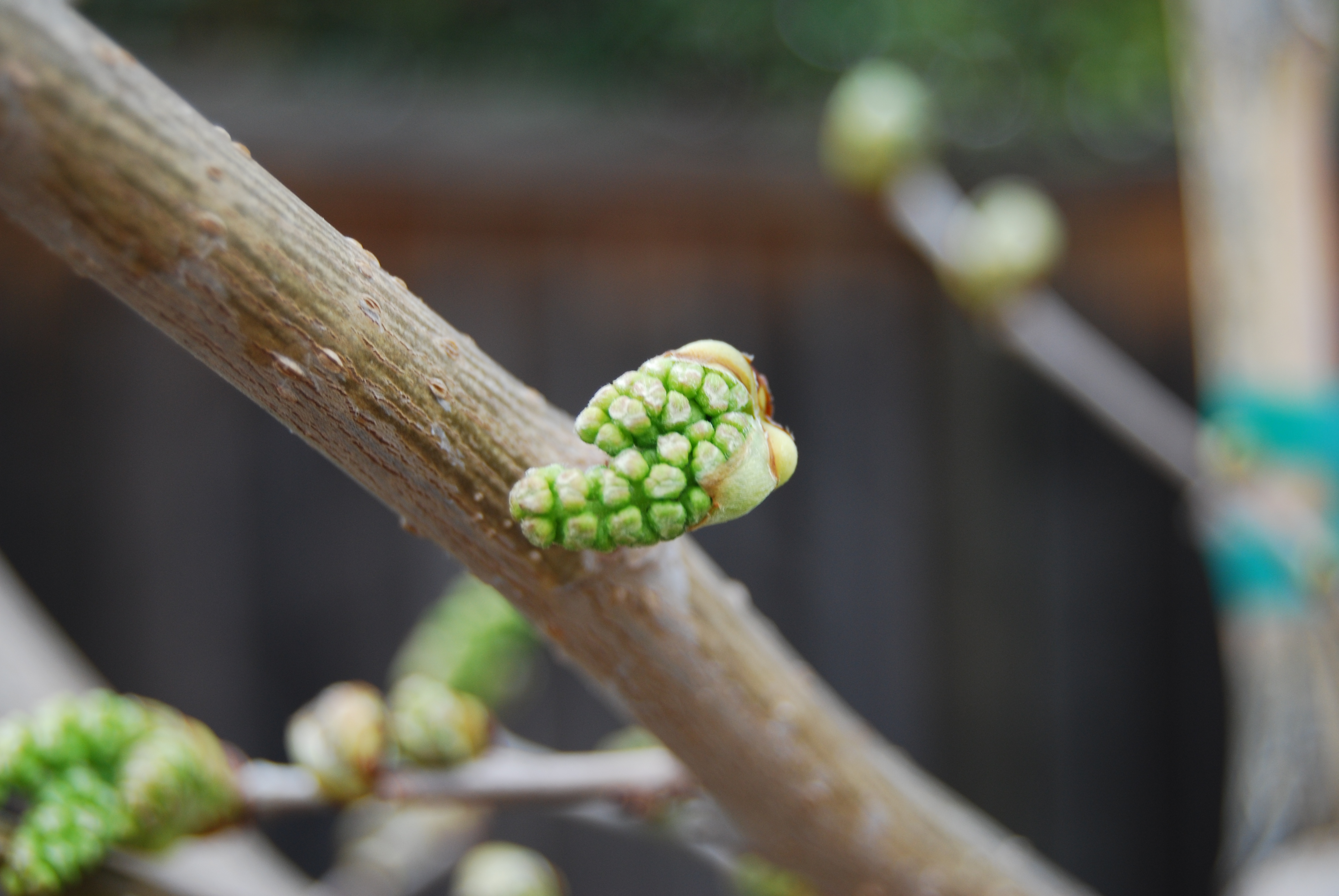 Mulberry tree unopened flower bud